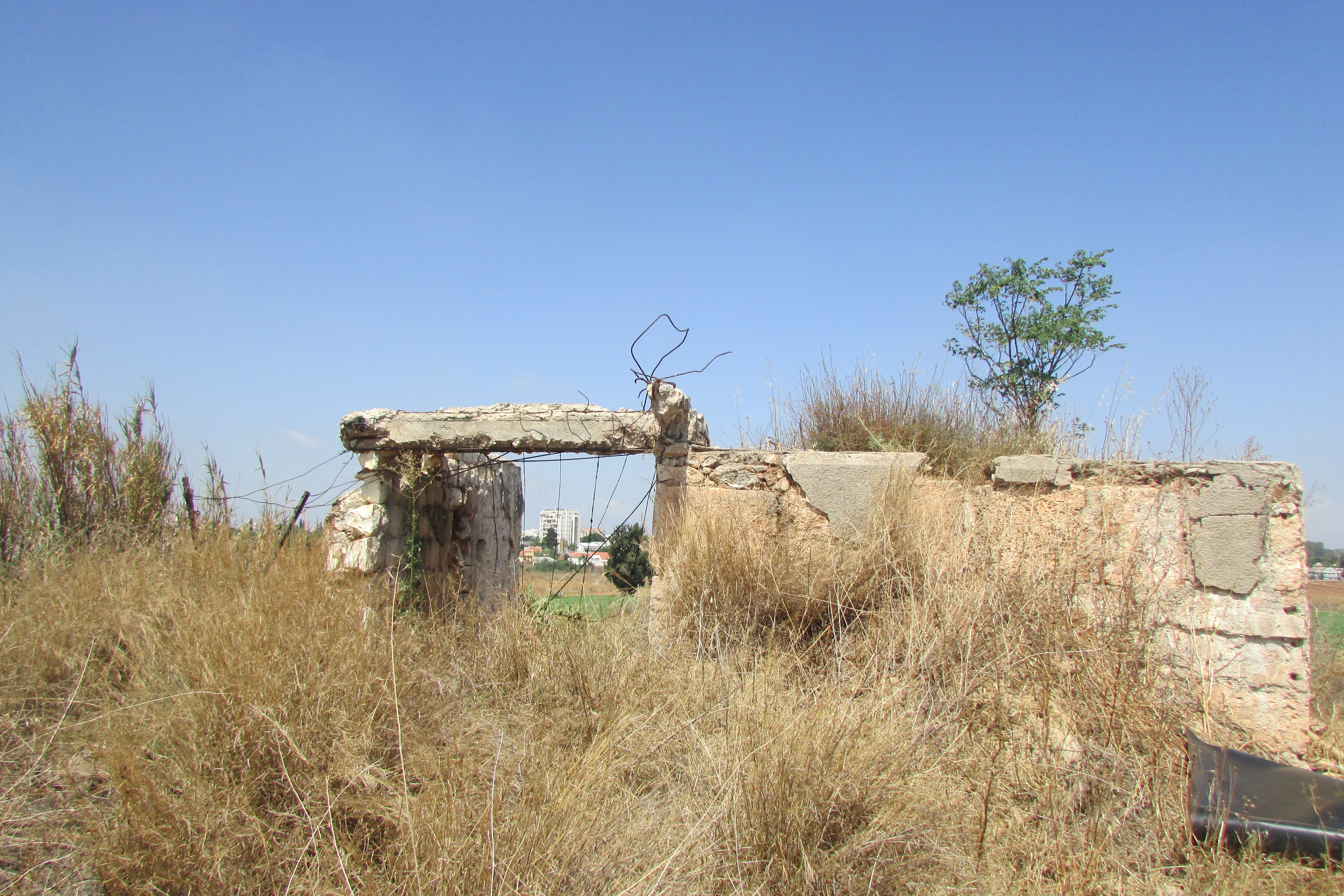 Remains of Meshek HaOtzar east of Kfar Saba